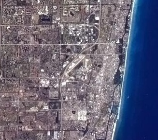 Satellite (ISS) photograph of Boca Raton